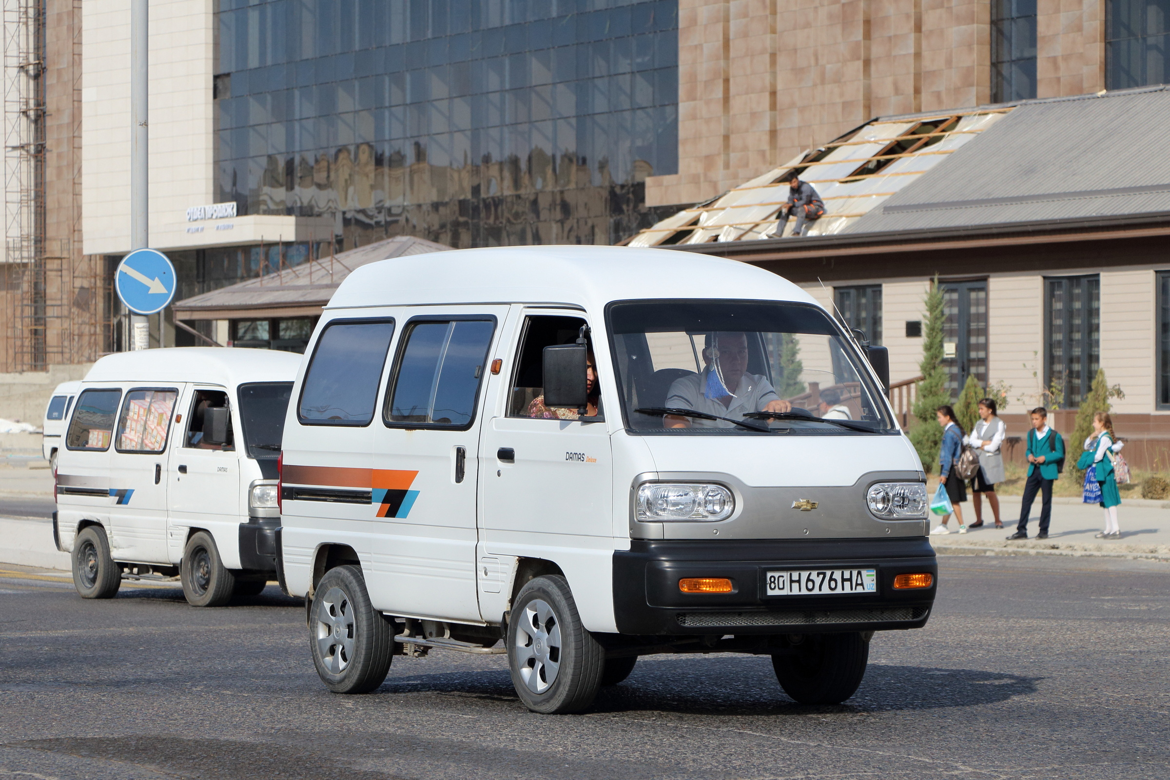 Chevrolet Damas vans in Bukhara, Uzbekistan. These vans are produced by UzAuto Motors (former GM Uzbekistan) in Pitnak, Uzbekistan.